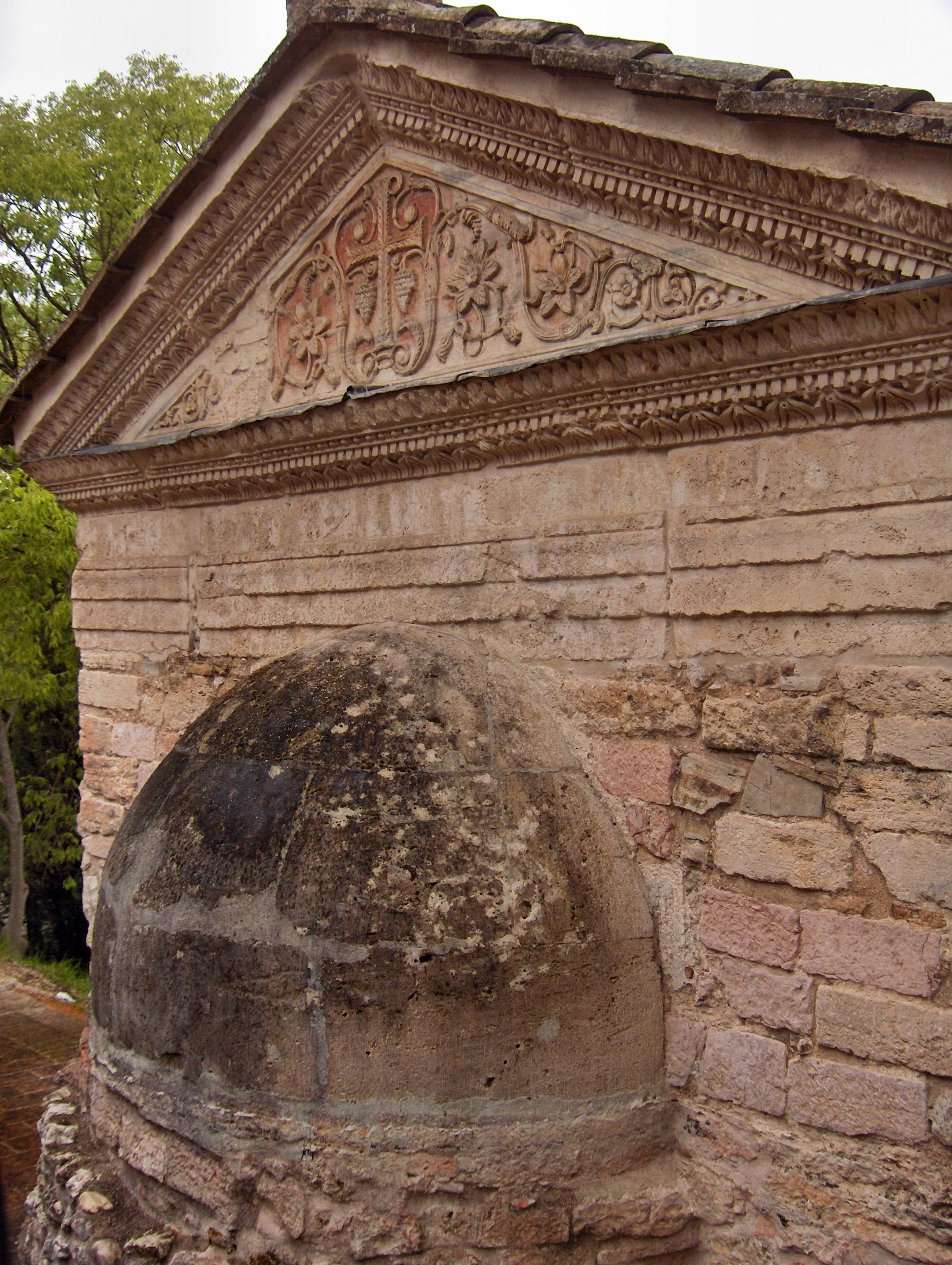 The former Roman temple dedicated to the river god Clitumnus and transformed into an early-Christian church (probably in the fourth century); located in Campello sul Clitunno, south of Trevi, Italy.